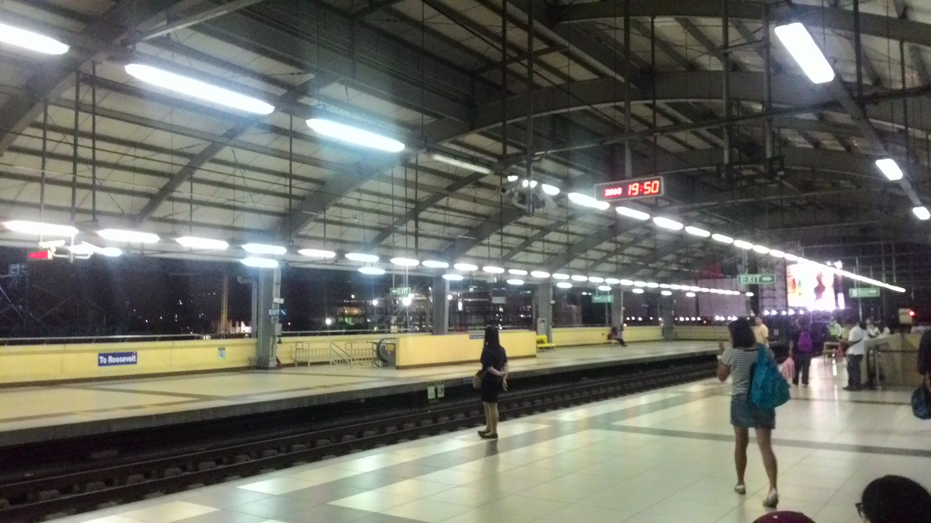 Balintawak Station in LRT Line 1.